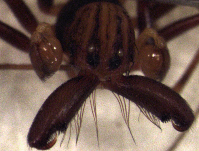 Aotearoa magna (male) showing chelicerae